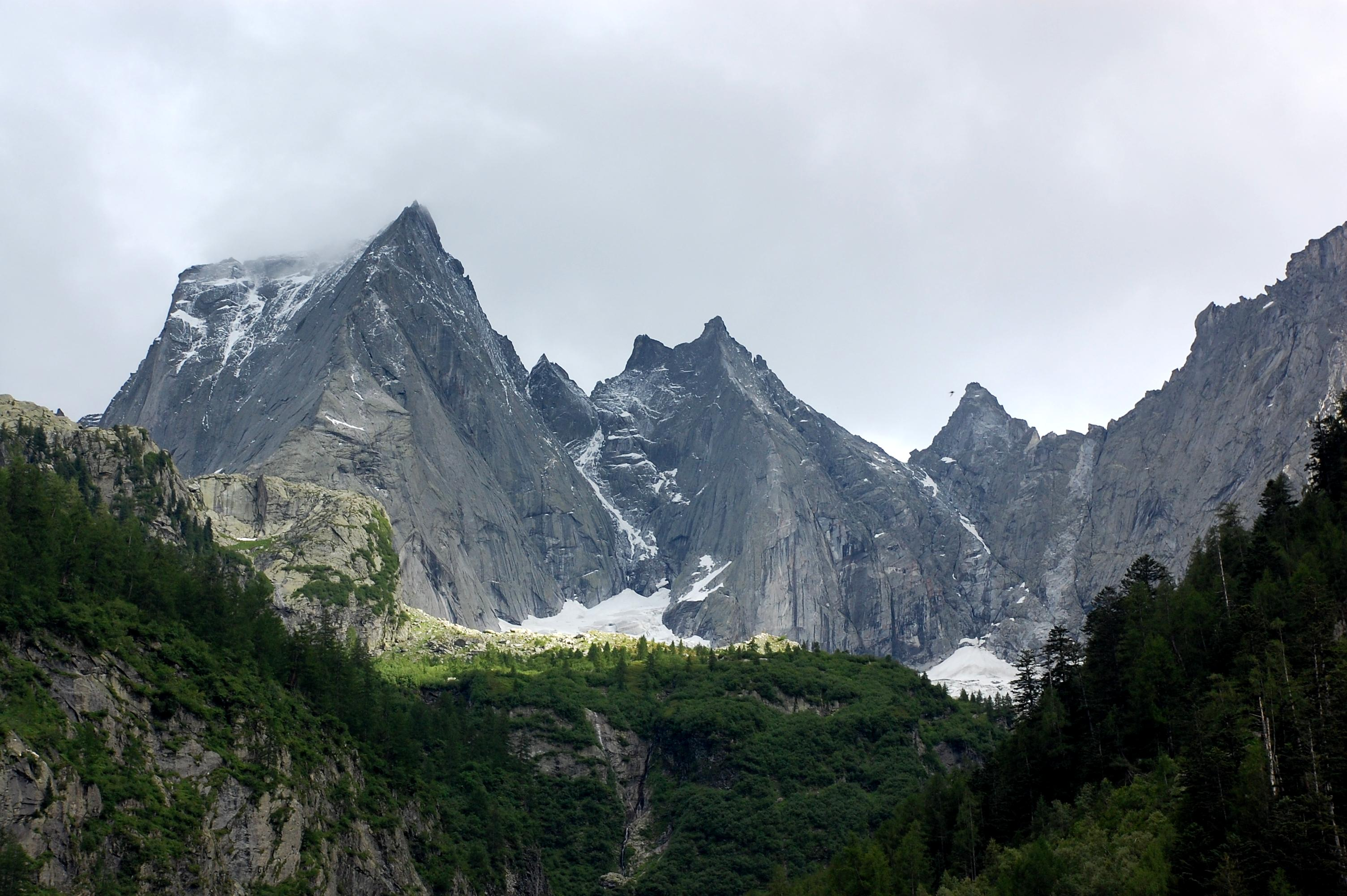 Pizzo Badile, Graubünden